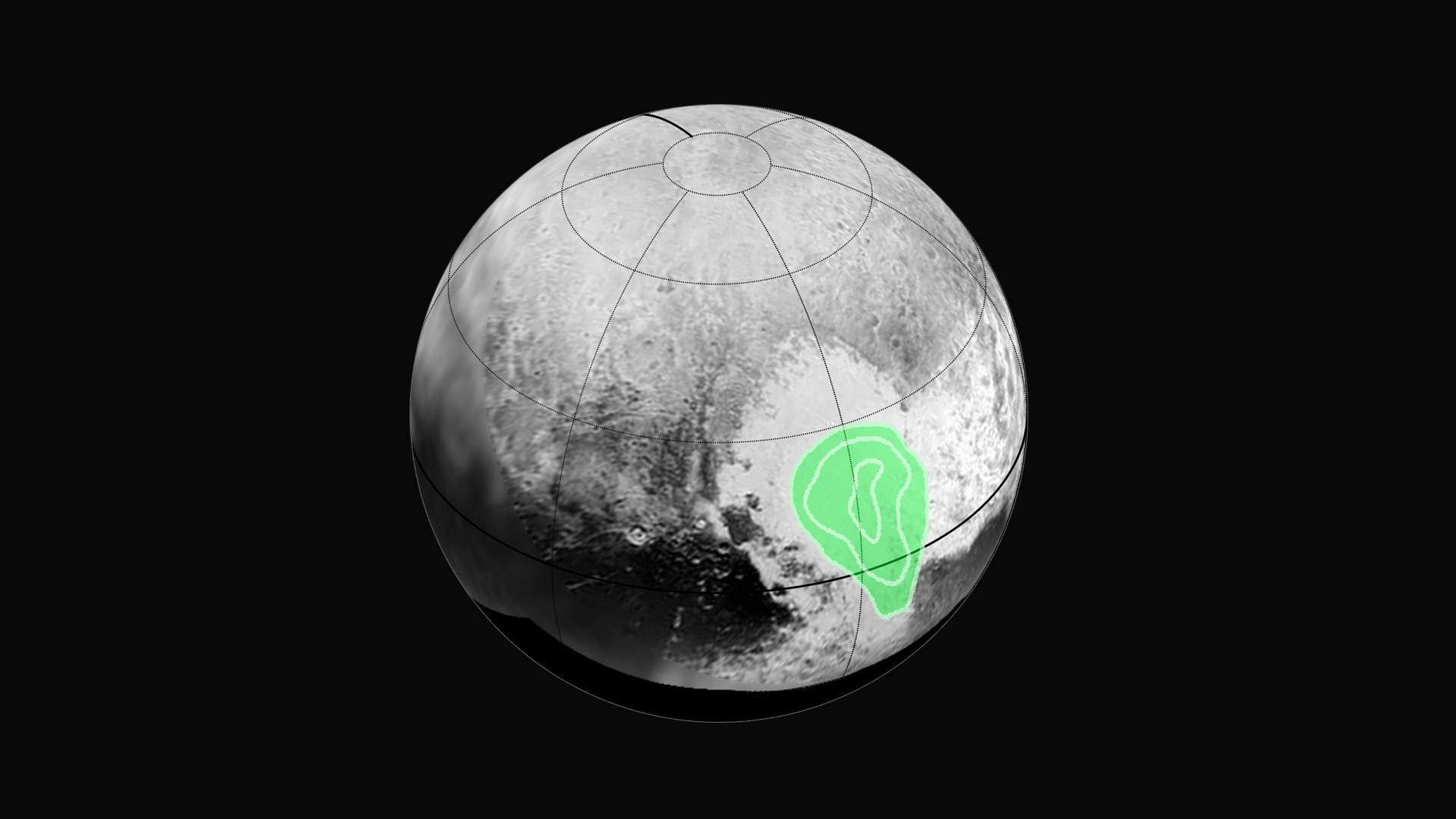 July 17, 2015 Frozen Carbon Monoxide in Pluto’s 'Heart' Peering closely at the “heart of Pluto,” in the western half of what mission scientists have informally named Tombaugh Regio (Tombaugh Region), New Horizons’ Ralph instrument revealed evidence of carbon monoxide ice. The contours indicate that the concentration of frozen carbon monoxide increases towards the center of the “bull’s eye.” These data were acquired by the spacecraft on July 14 [2015] and transmitted to Earth on July 16 [2015].